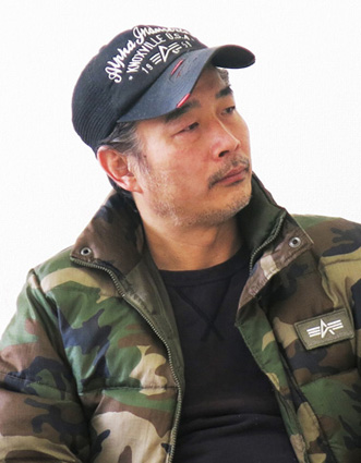 Toshinari Masuda/talking with Yuki Nakai